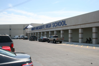 A picture of the new front of North Mesquite High School